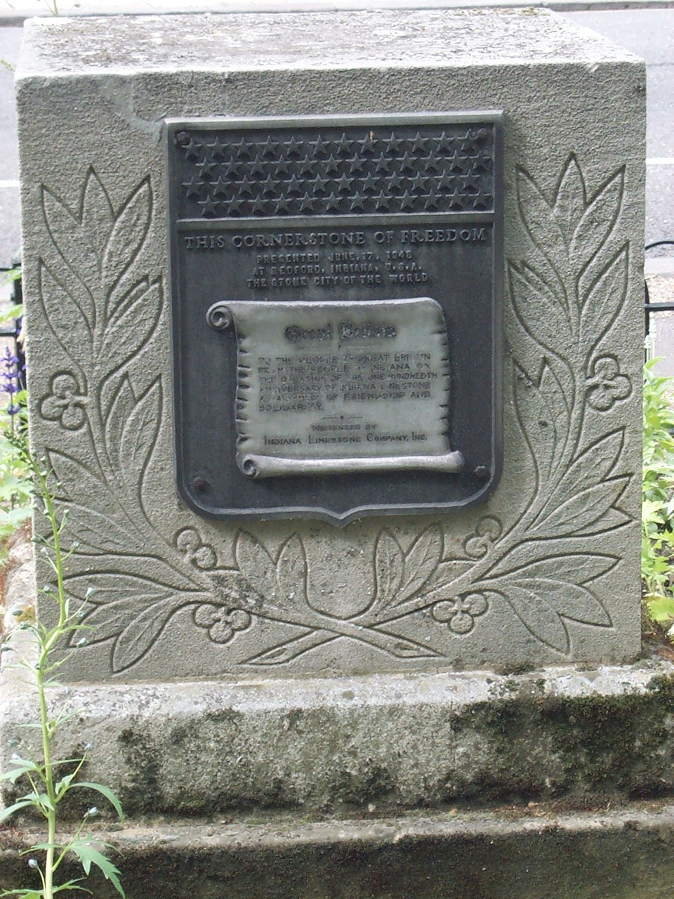 The Cornerstone of Freedom, Bedford, Bedfordshire, England. Not Bedford's most important monument. Seems to commemorate 2 facts:- a town in the US is also called Bedford and this town quarries limestone. The inscription mentions "solidarity", presumably for the towns' mutual dullness. A cornerstone is normally an important part of a building. This "cornerstone" sits on its own hardly noticed in a flowerbed on the Embankment, an early example of the pet rock.